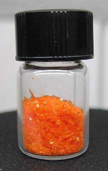 Potassium chlorochromate crystals